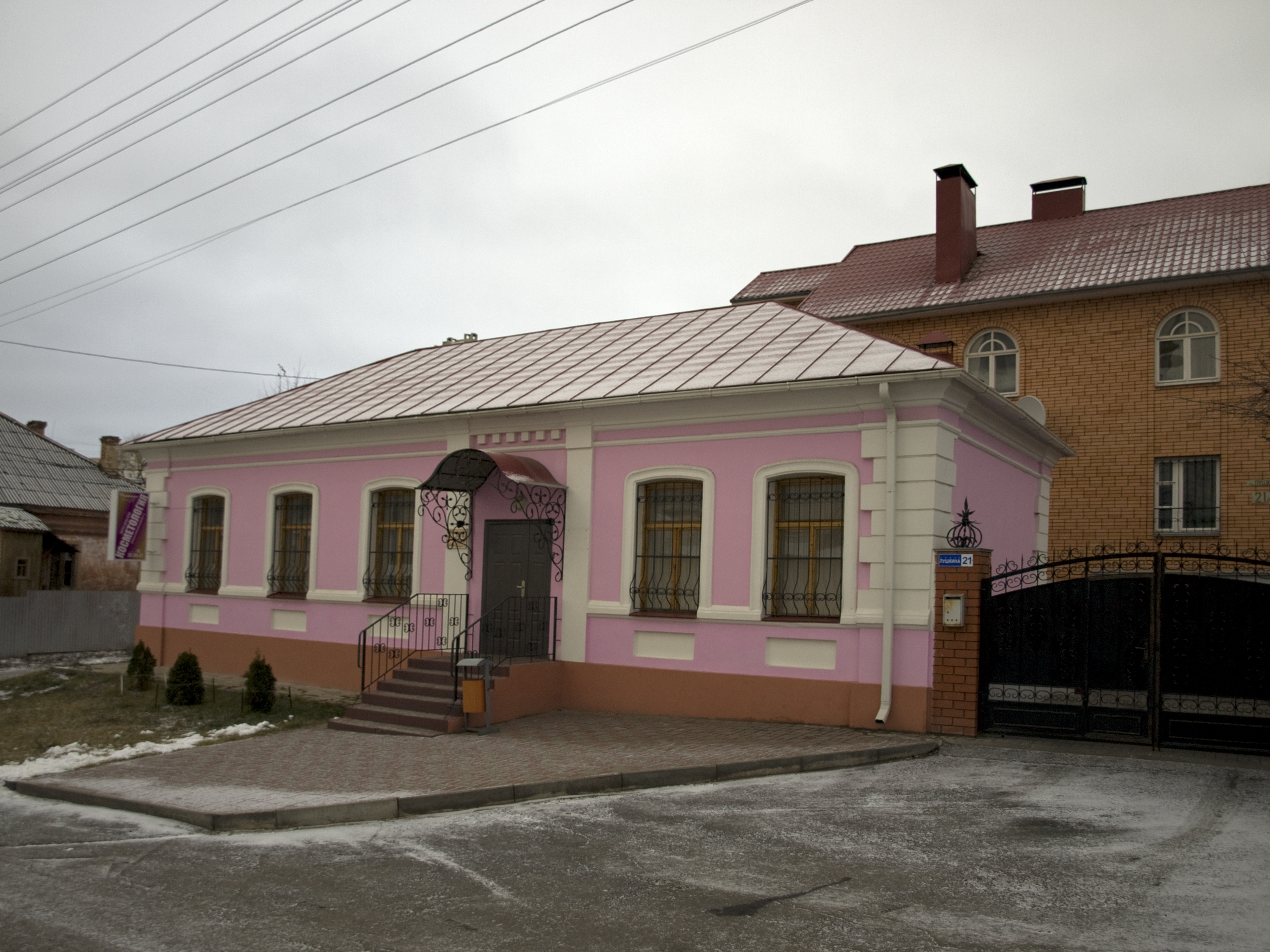 Pushkina Street 21, Belgorod